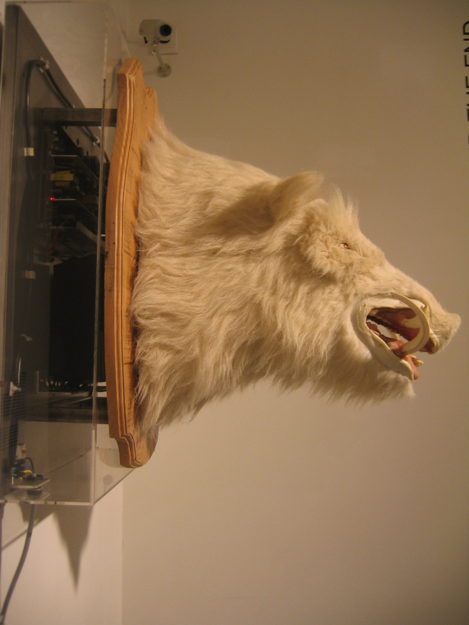 Photograph of Le Souillot, an animatronic boar head displayed in the Trophy Room at the Musée de la Chasse et de la Nature in Paris.